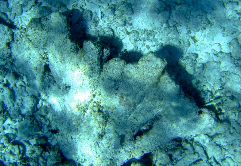 Dead Elhorn Coral can be seen among the rubble inside the Inner Reef